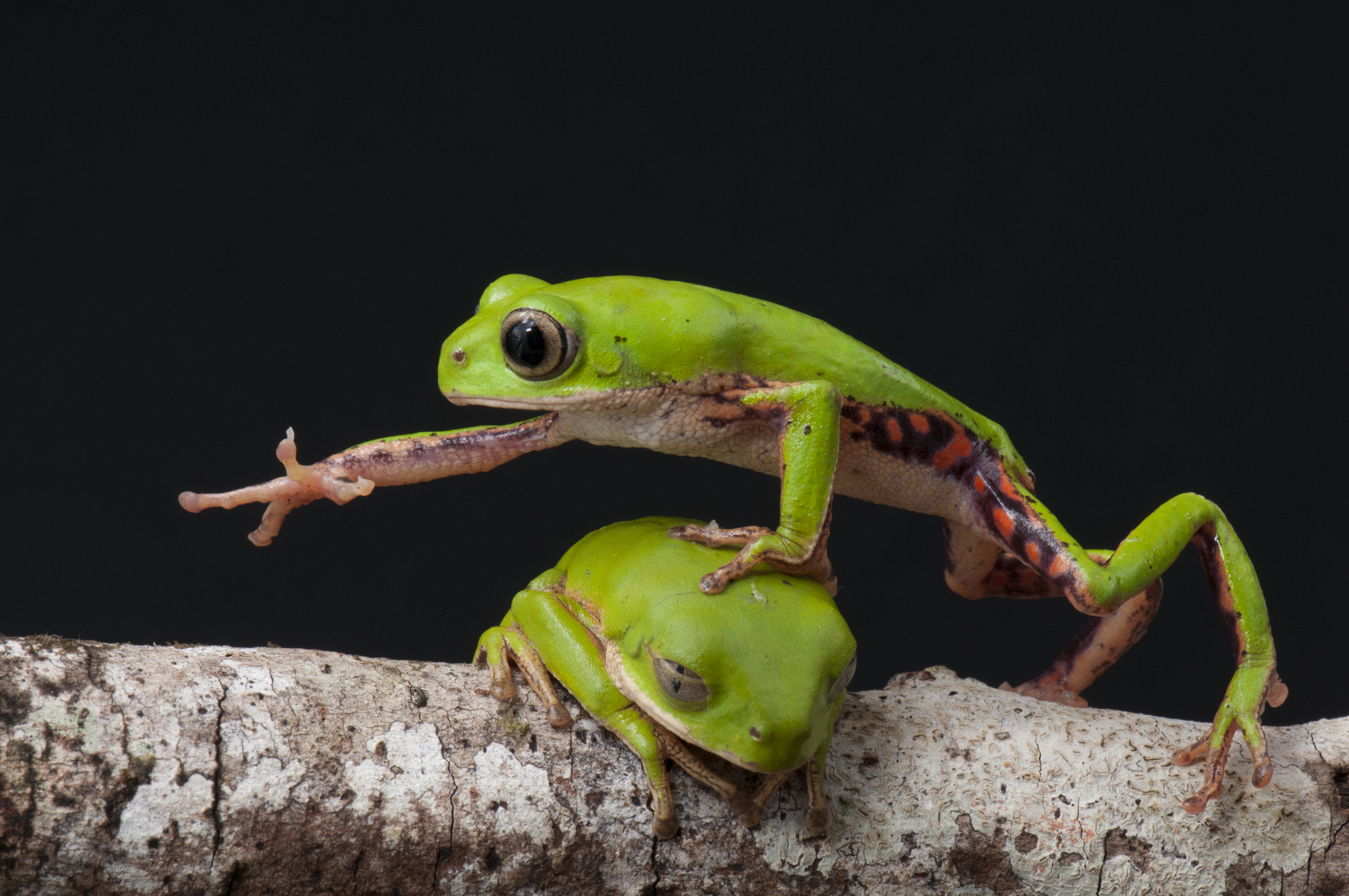 Phyllomedusa rohdei is a species of frog in the family Hylidae with a purple and orange colouration in the inguinal region. In the picture, two males vie for a branch, one passing over the other. Photographed in the Atlantic Forest, Michelin Reserve, Igrapiúna, Bahia, Brazil.